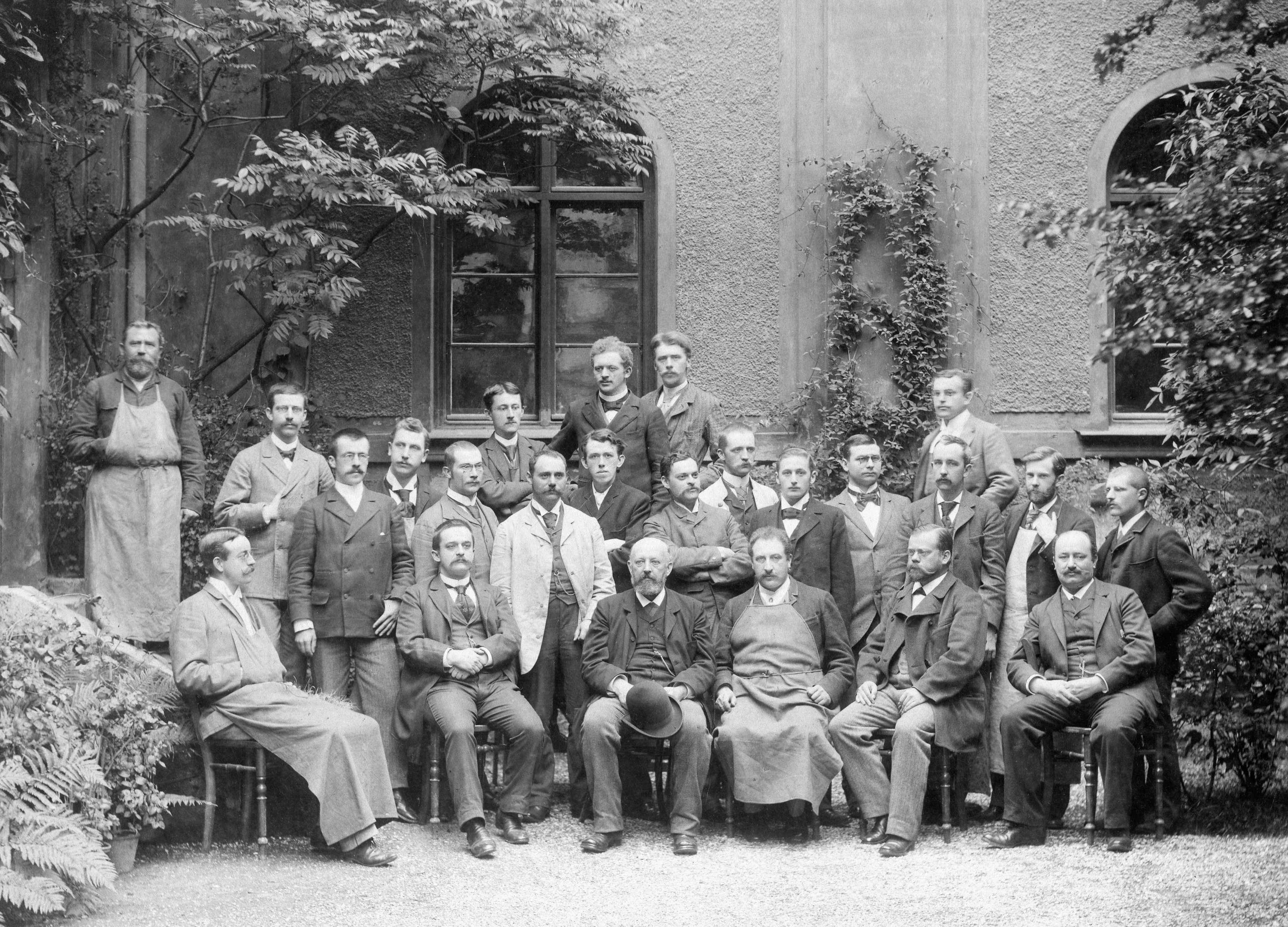 Chemical_Laboratory, Bavarian Academy of Sciences Munich (Ludwig-Maximilians-Universität München, Organic Chemistry) Back (3rd) row, standing, left to right: Labordiener Veit sen. Wilhelm Manchot, prom. 1895 bei Thiele in München Otto Dimroth, prom. 1895 bei Thiele in München ?4 ?5 ?6 2nd row, standing, left to right: ?1 ?2 ?3 ?4 ?5 ?6 ? Priv. Doz. Alfred Einhorn, 1891-1917 Richard Willstätter, prom. 1894 bei Einhorn in München ?9 Dr. Henry Lord Wheeler (1867-1914), post-doc bei Thiele (1893-1894) in München Labordiener Veit jun. Victor Villiger, prom. 1893 bei Baeyer Front row (sitting), left to right: Dr. Walter Dieckmann, prom. 1892 bei Bamberger in München a.o. Prof. Johannes Thiele, (1893-1902 in München) Prof. Adolf von Baeyer Labordiener a.o. Prof. Wilhelm Koenigs (1892-1906 in München) ?6